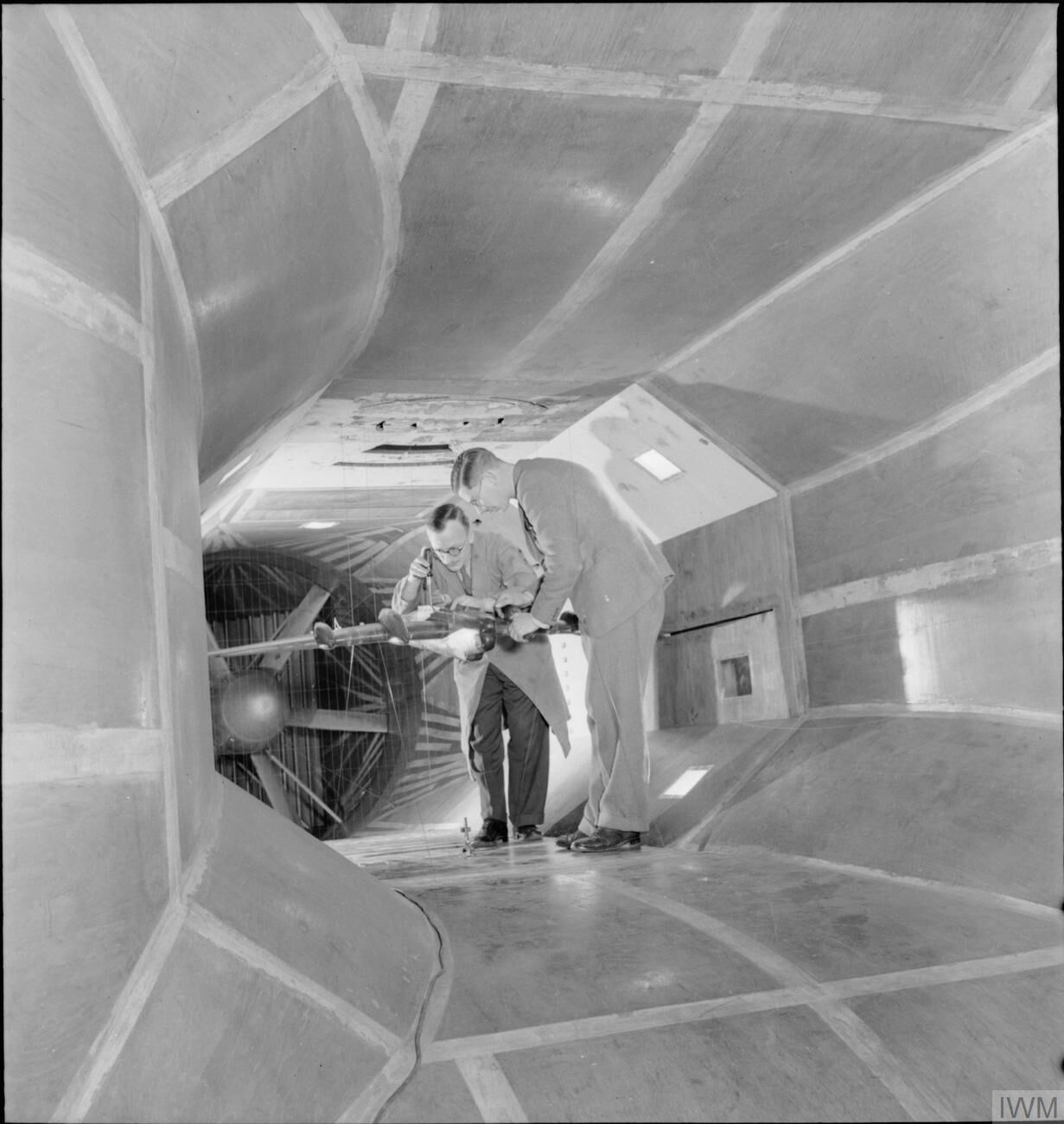 Birth of a Bomber- Aircraft Production in Britain, 1942 A striking portrait of engineers at work in the wind tunnel at the Handley Page factory at Cricklewood. They are preparing to test a model of a Halifax to see the effect that the opening of the bomb doors has on the aircraft.